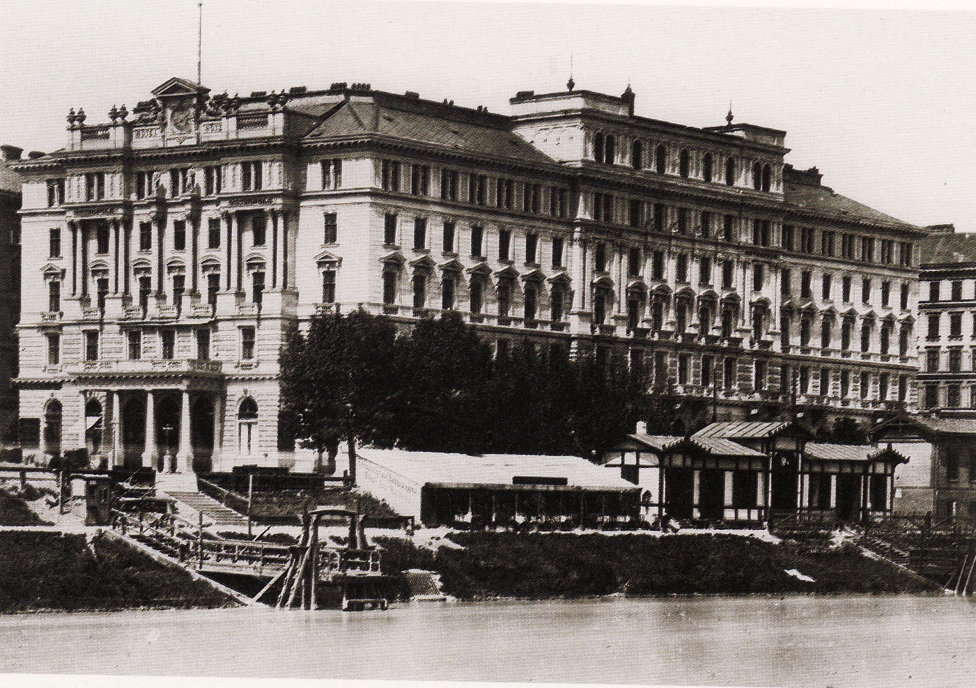 Hotel Metropol Vienna